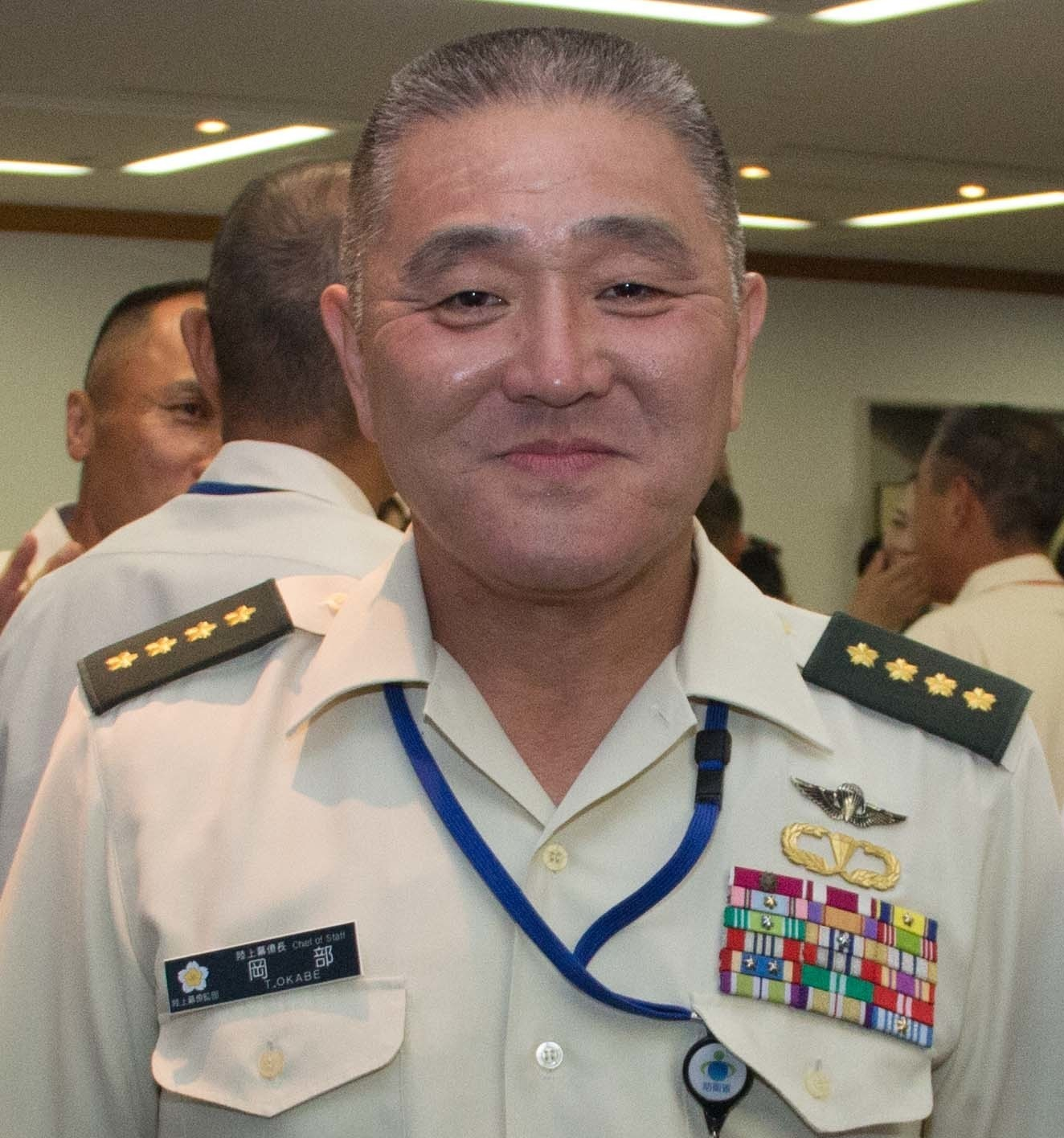 Gen. Toshiya Okabe (center), chief of staff, Japan Ground Self-Defense Force, during a formal bilateral dinner hosted at the Sky View restaurant at Camp Ichigaya, Japan, Aug. 29, 2016.